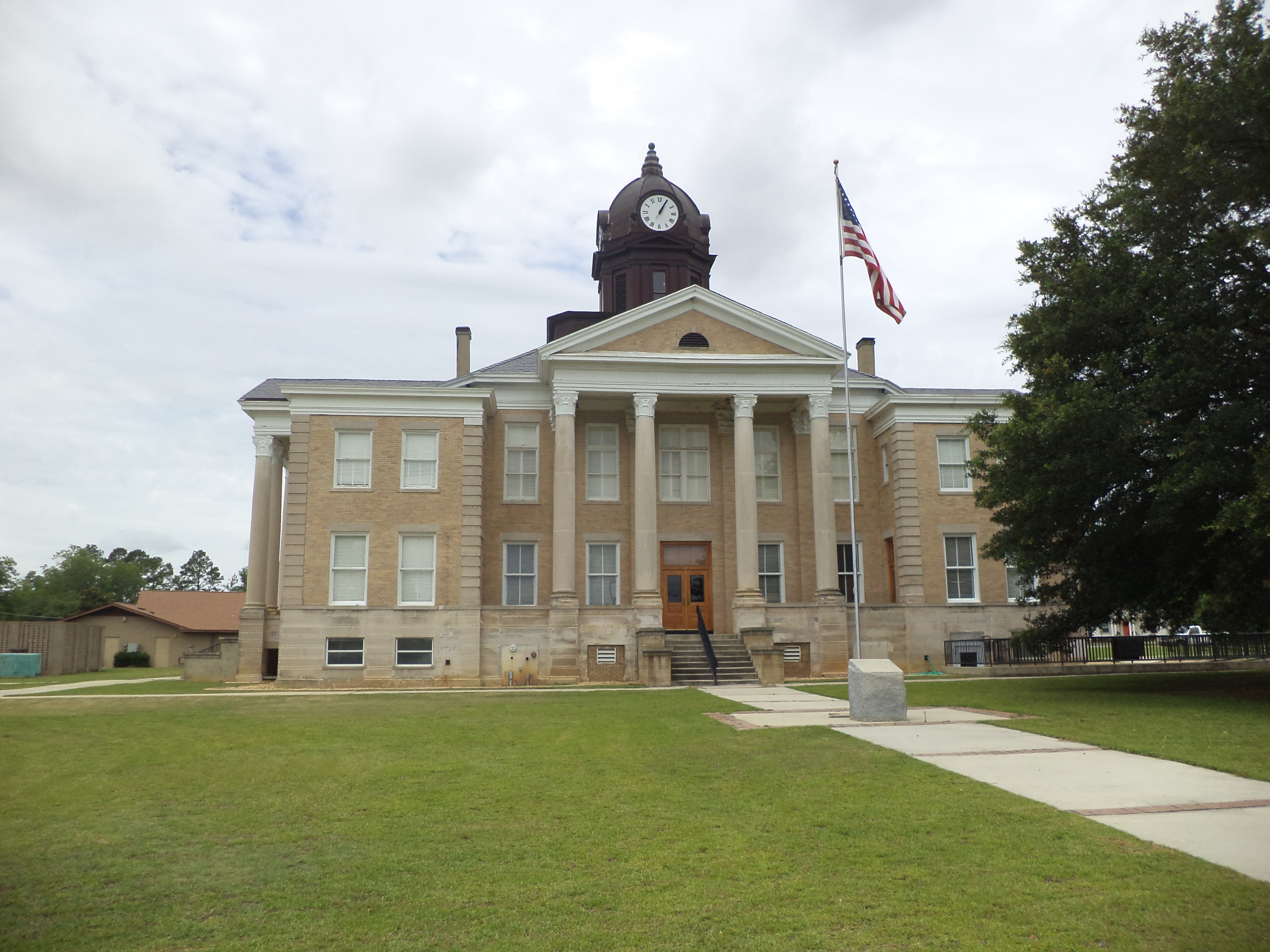 Irwin County Courthouse (West face)